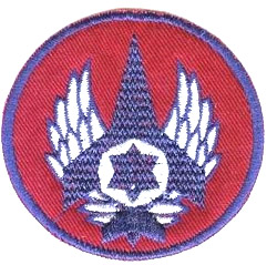 Insignia of the Israeli Air Force